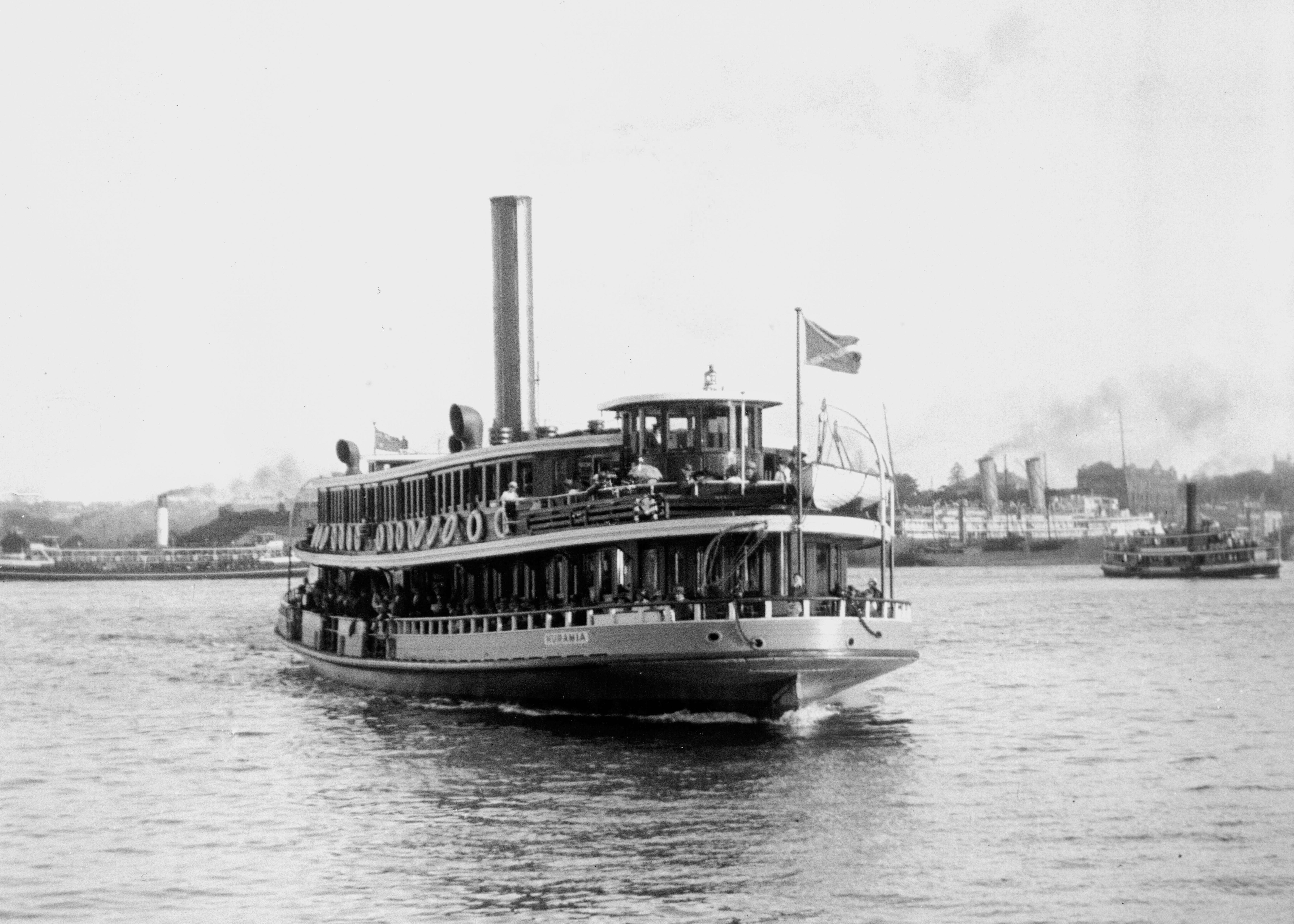 Sydney Ferry KURAMIA 1914 File 078/078615 DESCRIPTION KURAMIA is lightly loaded as she heads for the Milsons Point transport interchange. DATE 1914 FORMAT Digital image only. Many of the images in this collection are available as hi-res jpegs. Please contact the City of Sydney Archives (archives@ .au) on a case by case basis. RECORDSERIES Sydney Reference Collection CITATION Graeme Andrews 'Working Harbour' Collection: 78615 PROVENANCE City of Sydney Archives NOTES S105211